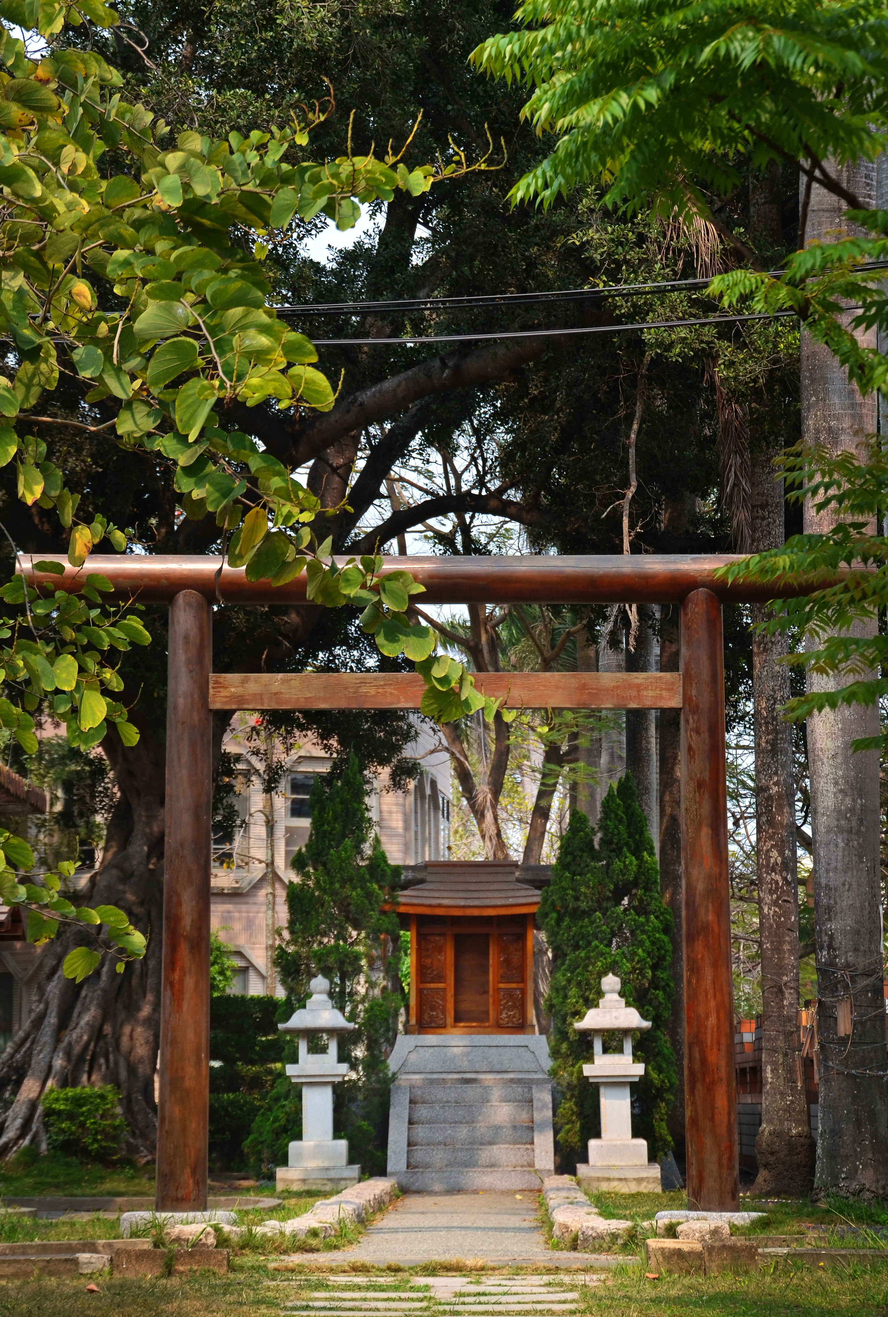 Tainan Municipal Yanshuei Elementary School, Shinto Shrine, Yanshui District, Tainan City, Taiwan.